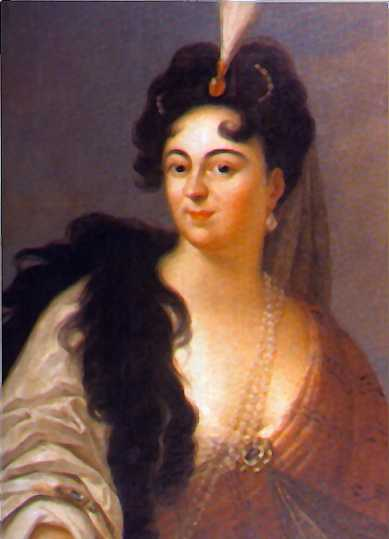 Portrait of Maria Aurora von Königsmarck (1662-1728)